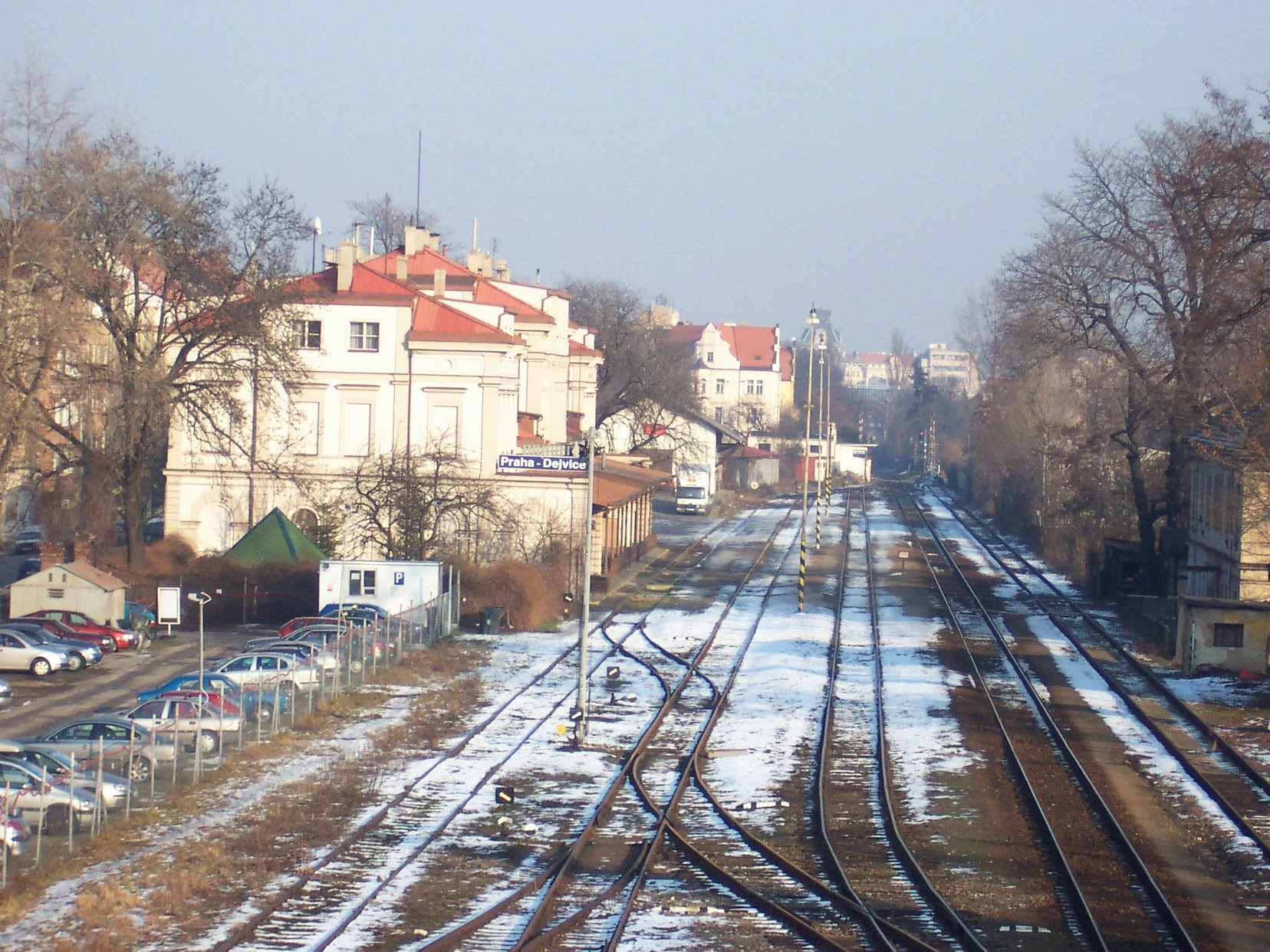 Train station Praha-Dejvice.